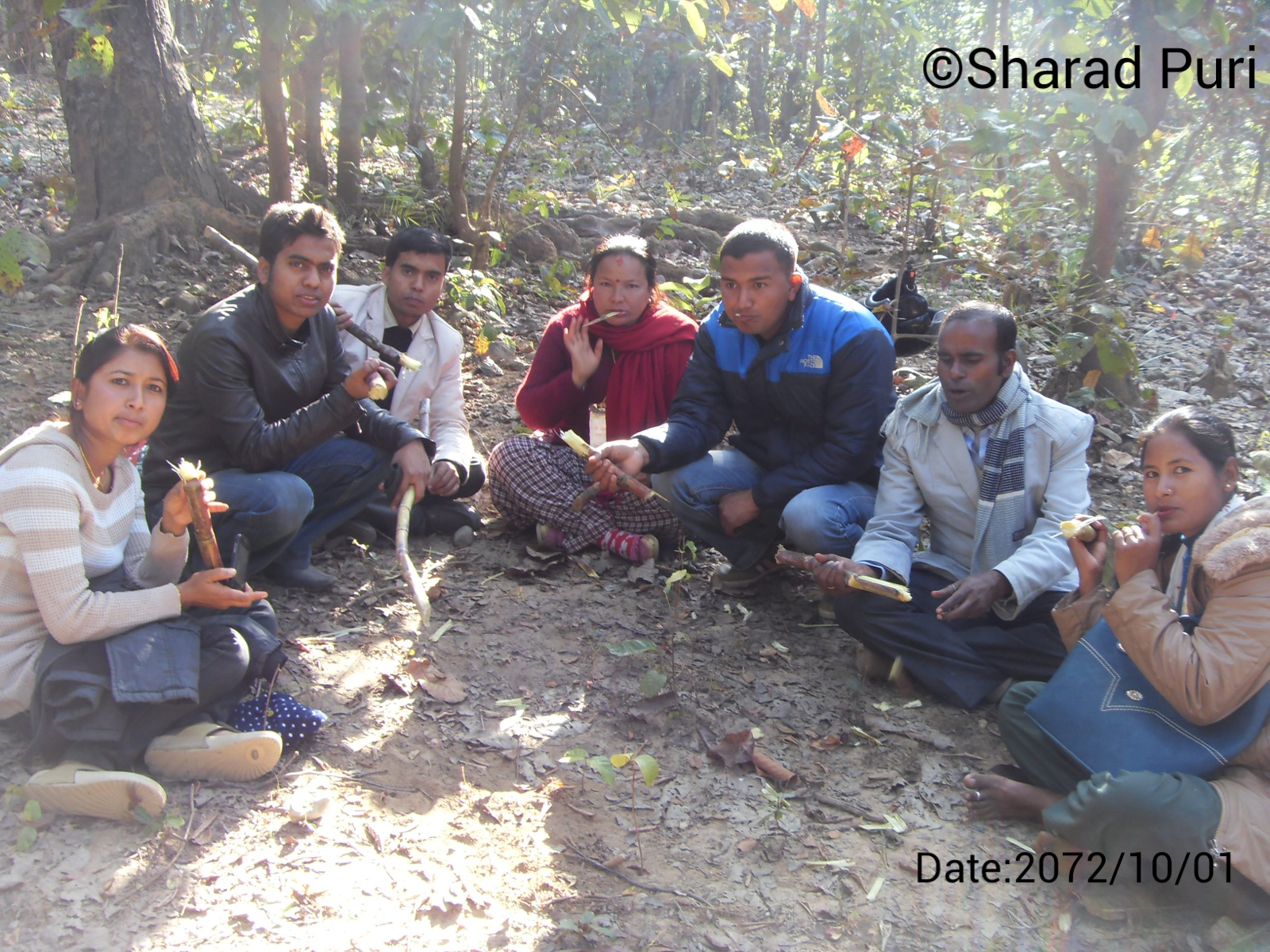 Devotees gathering outside of Siddha Baghnath Baba Junglekuti in 2071 B.S.